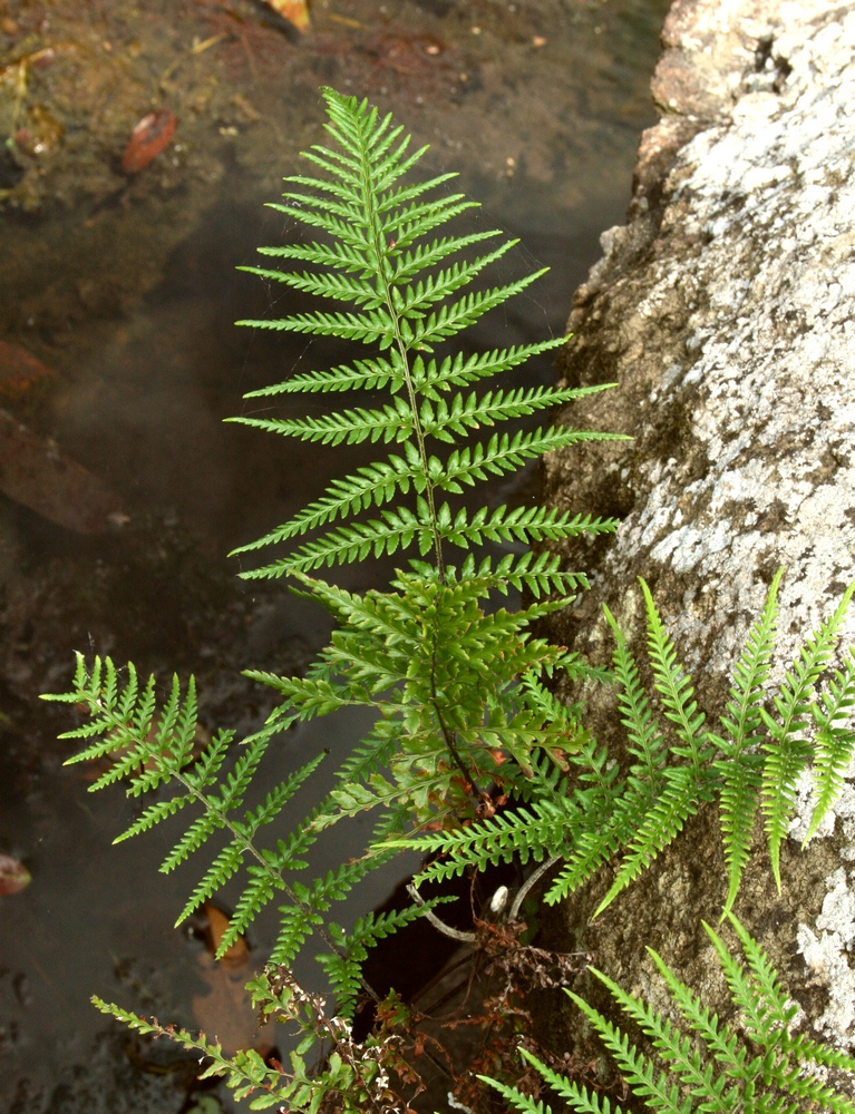 Pityrogramma calomelanos, Rio Tabaro, Venezuela